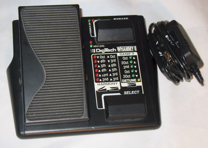 Author of image gave permission for use of the image